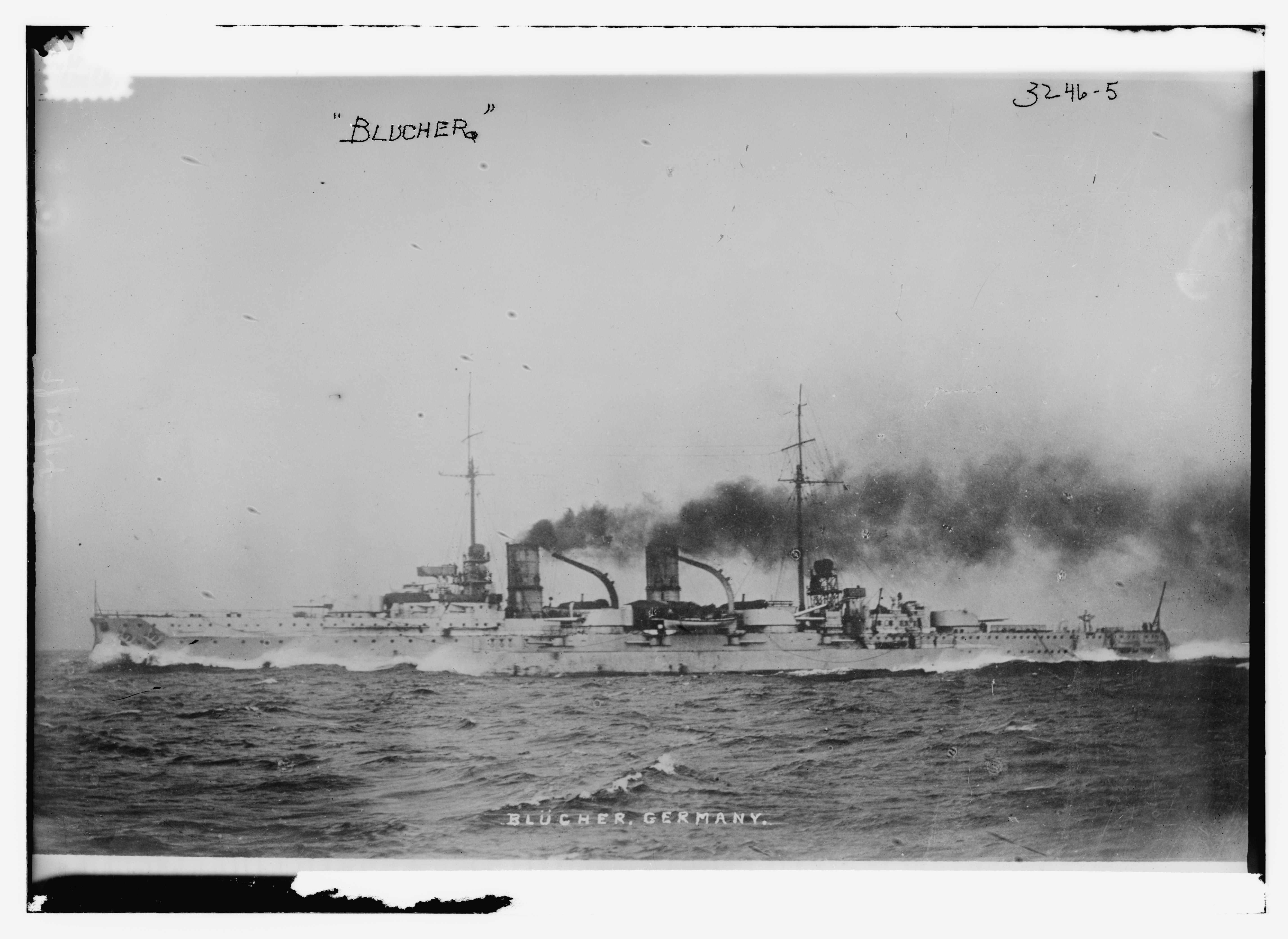 Title: BLUCHER -- Germany Abstract/medium: 1 negative : glass ; 5 x 7 in. or smaller.